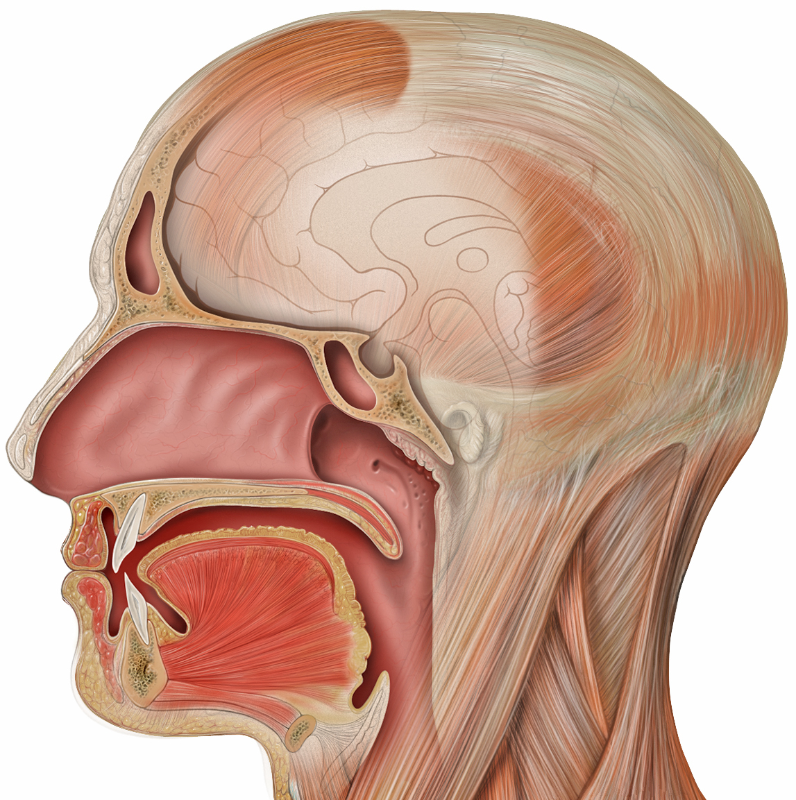 head lateral view with sagittal mouth anatomy